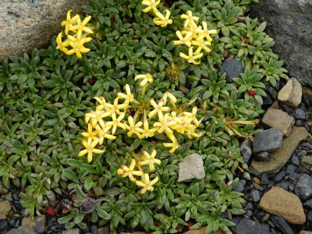 Oreopolus glacialis